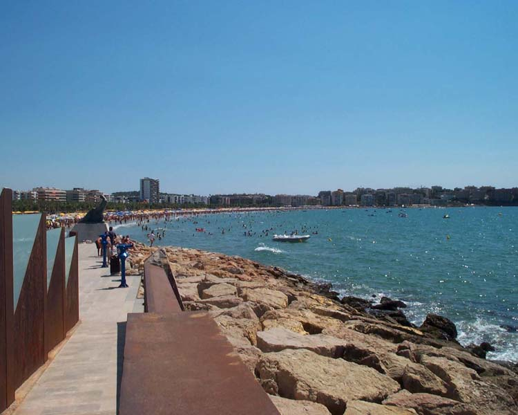 Salou, Spain, Beach and Port